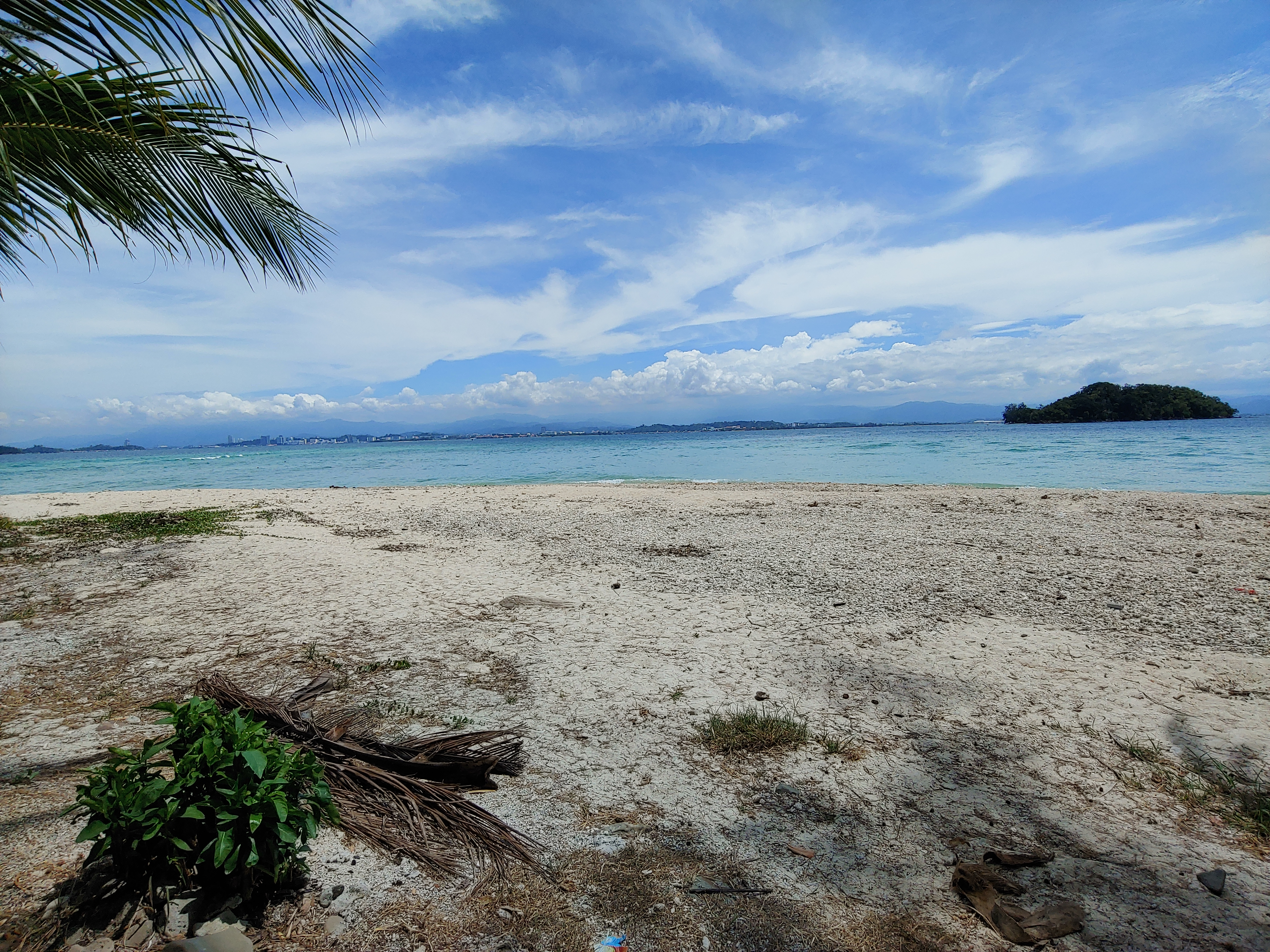 View of Mainland from Manukan Island